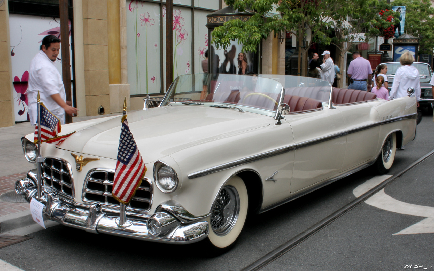 Chrysler Imperial phaeton 1956Caruso Concours d'Elegance Stars and their Cars; Glendale, CA May 31, 2009